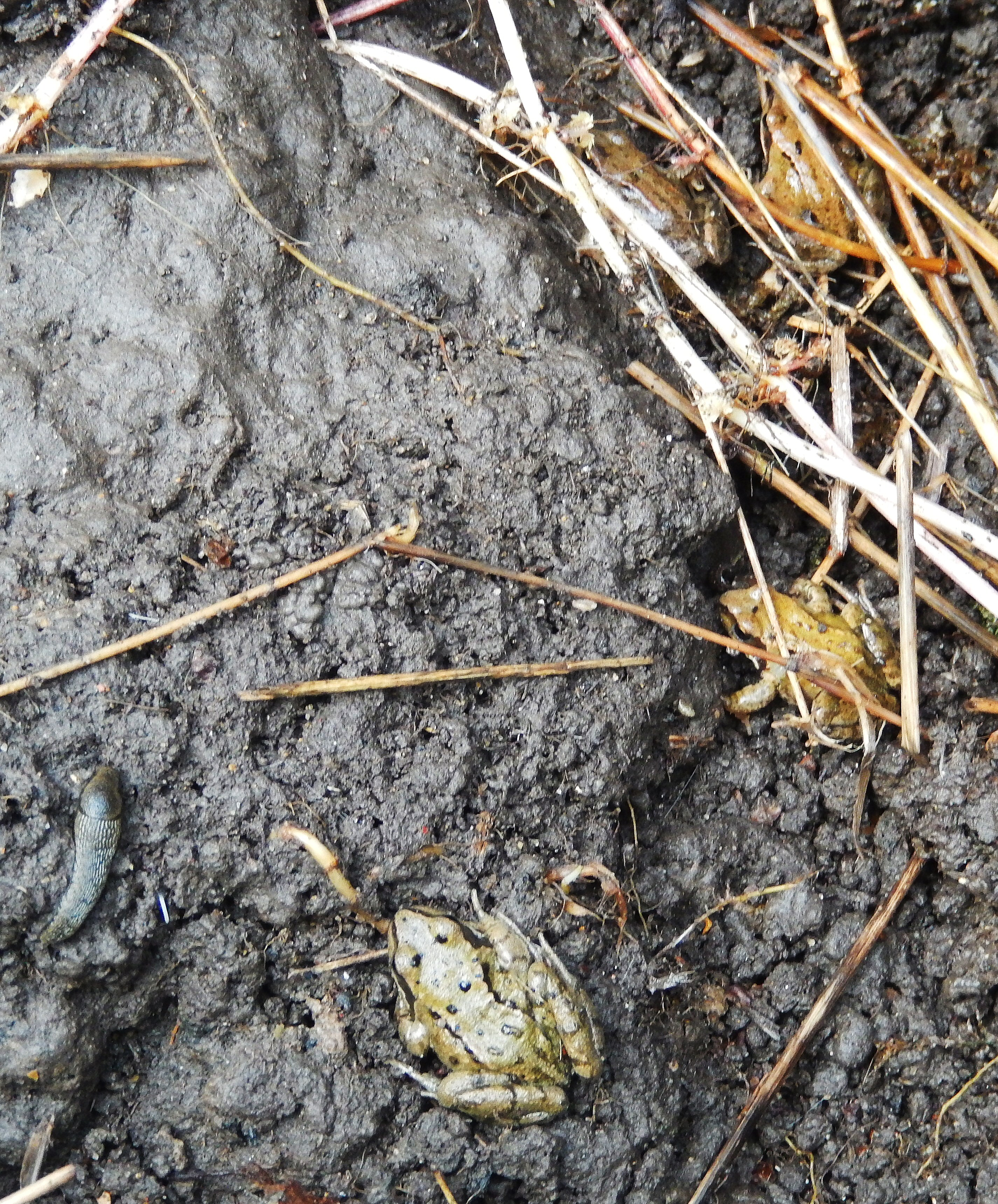 Frogs wintering under a habitat mat at Gunnersbury Triangle